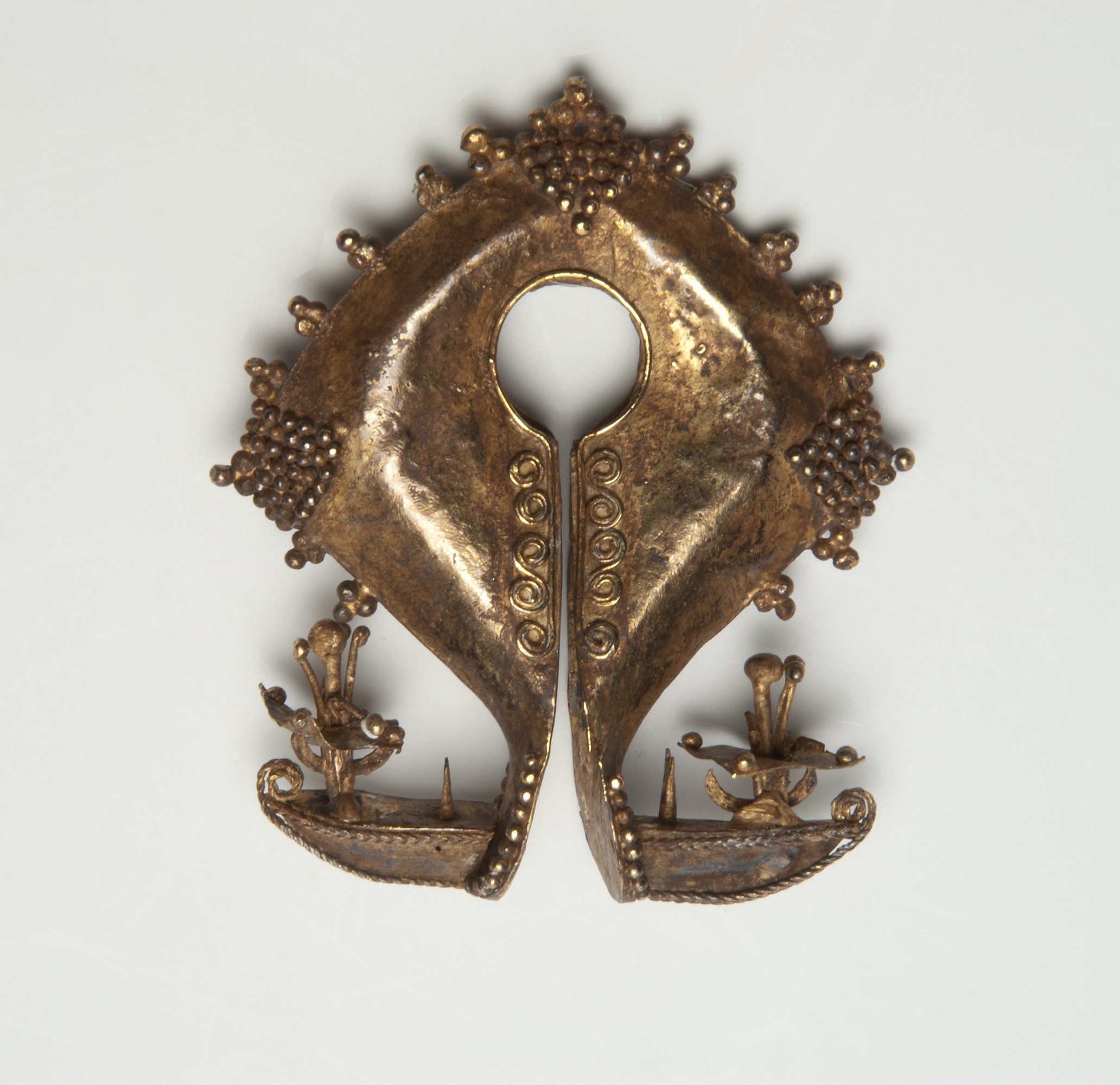 Ornament used exclusively for ritual display